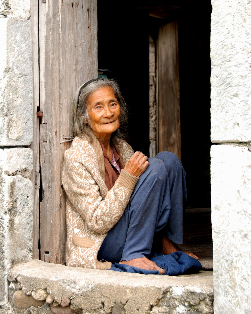 An 85-year old Ivatan woman sitting at her house's door